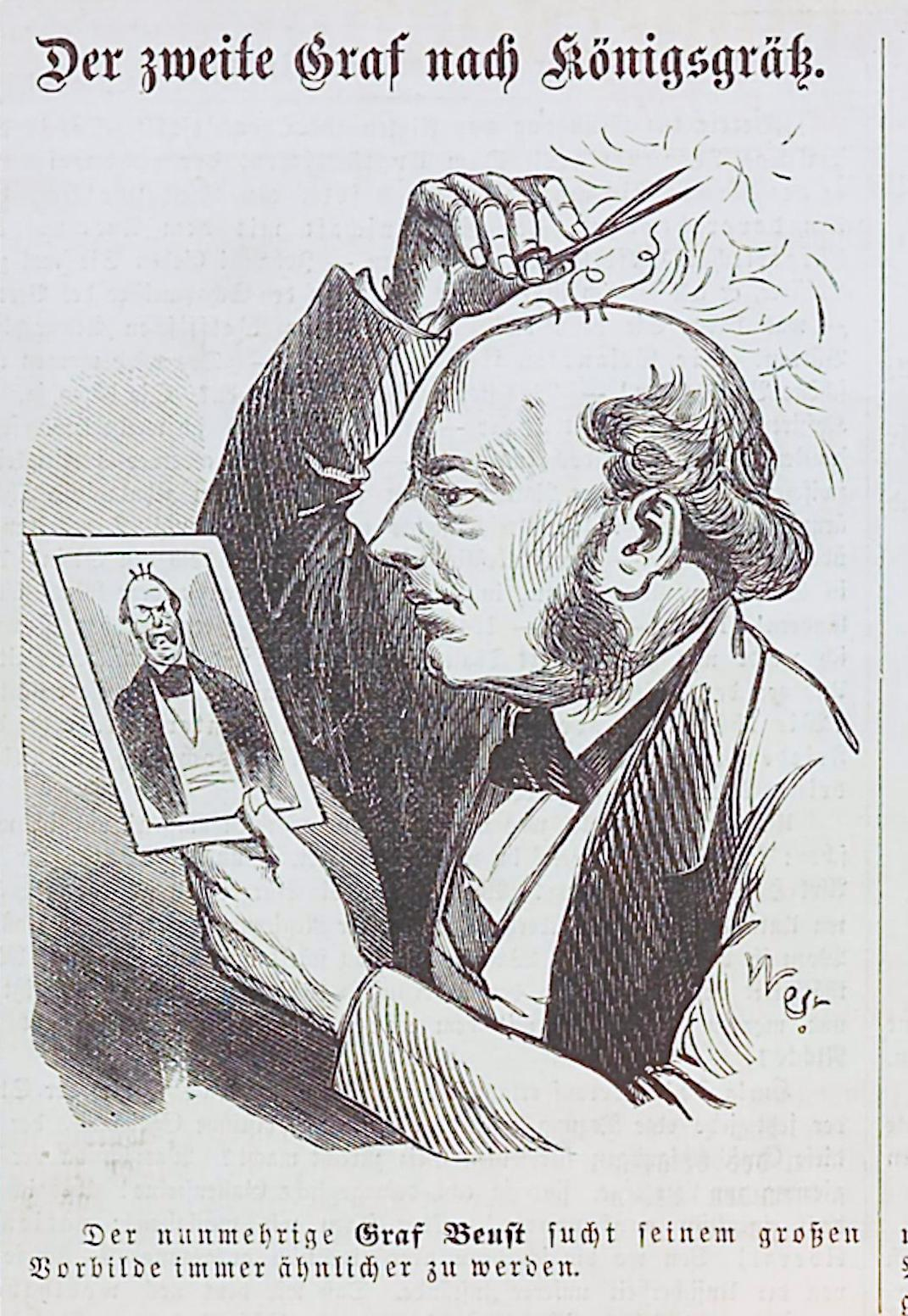 Karikatur, Kladderadatsch. Graf Friedrich von Beust, Otto von Bismarck